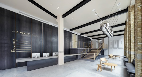 711 N70 webview